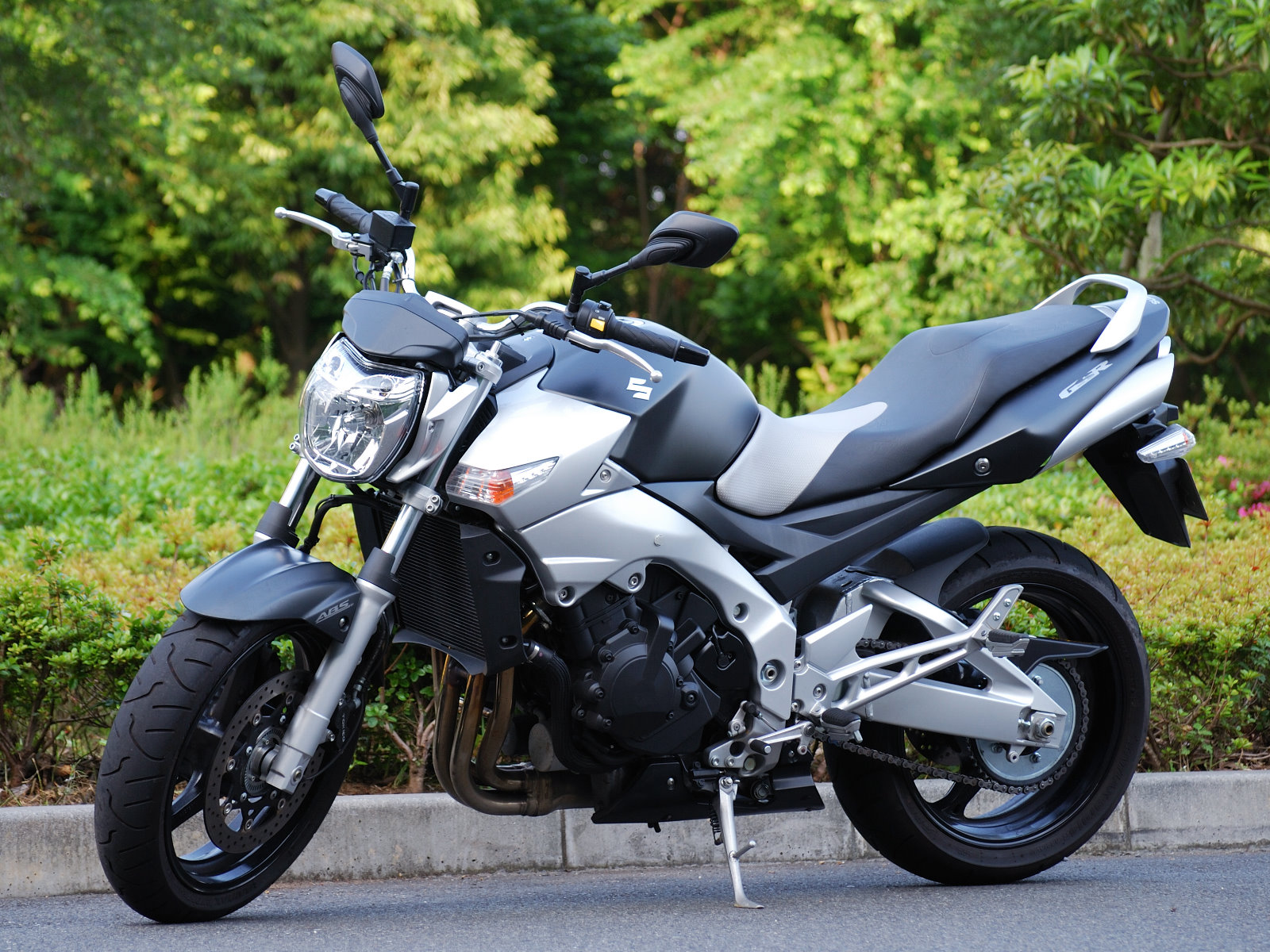 Suzuki GSR400 ABS (K7) Matte Black Metallic No.2 (2007/9 - 2008/11)